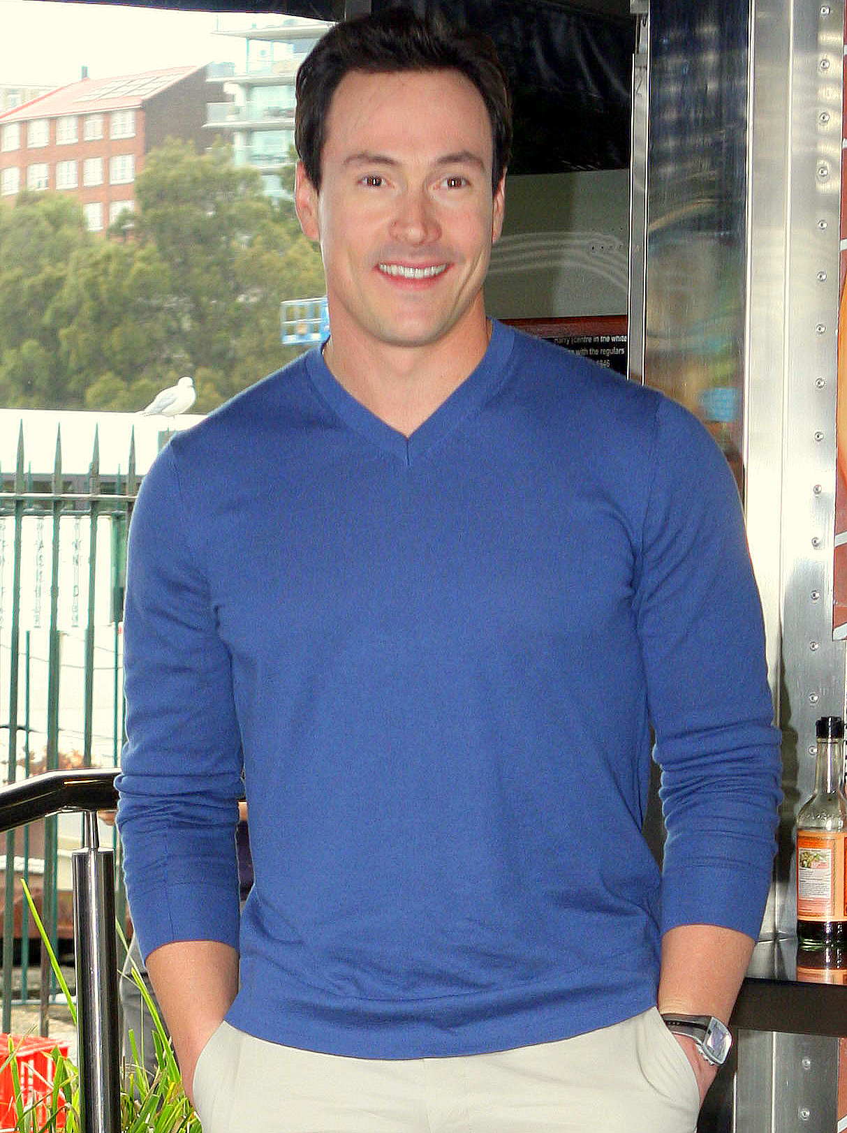 Chris Klein at the American Pie Reunion, Harry's Cafe de Wheels Sydney 2012.